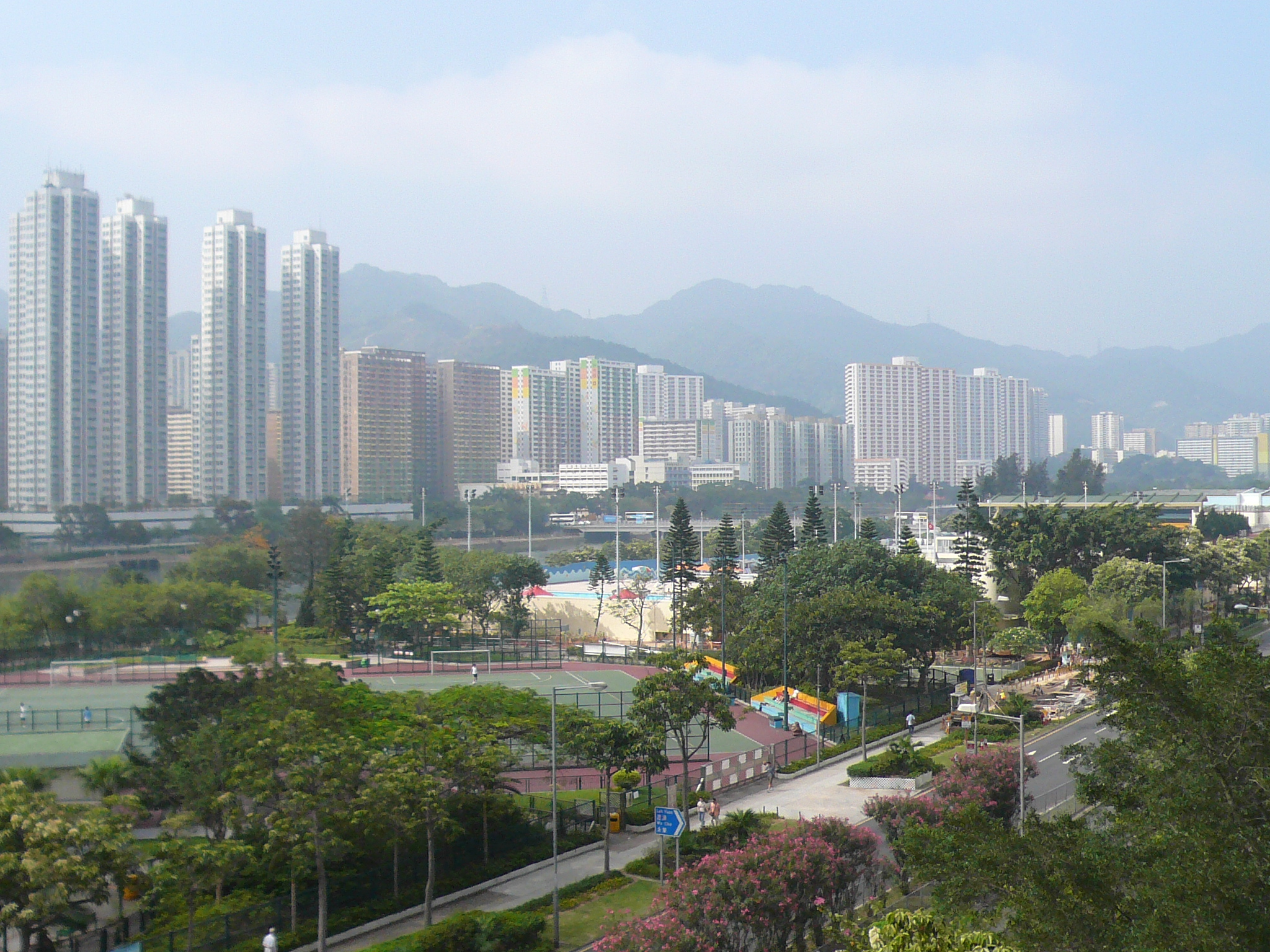 Yuen Wo Road in Hong Kong